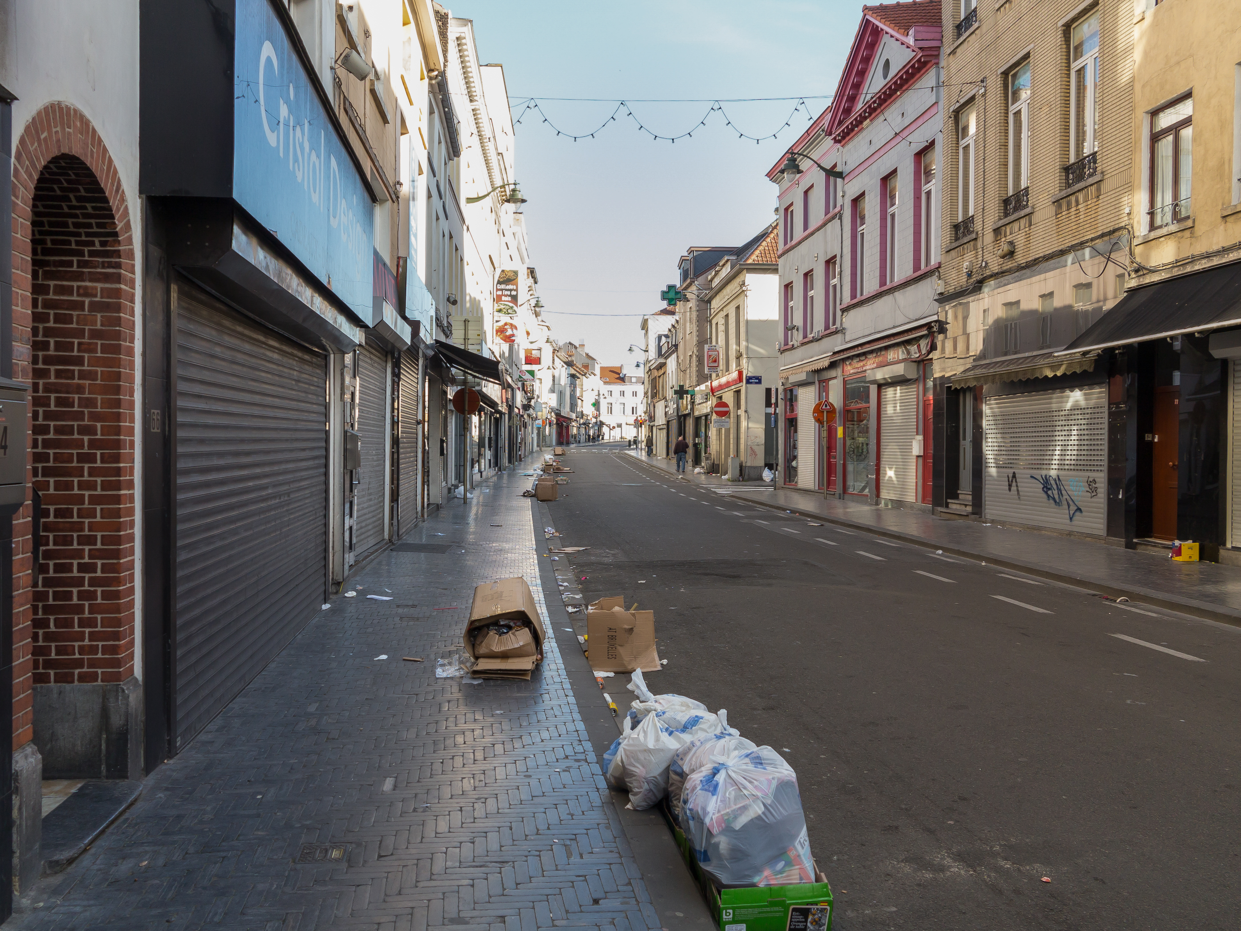 Brussels-Molenbeek Saint Jean, street view: Chausée de Gand